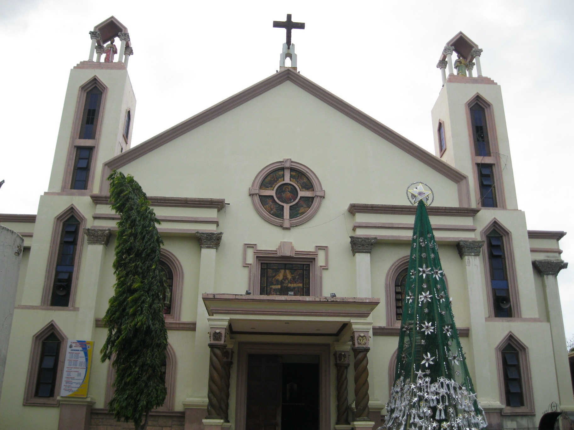 External view of St. Anthony of Padua Cathedral-Parish along Quezon St. Masbate City, Masbate. Taken December 28, 2010